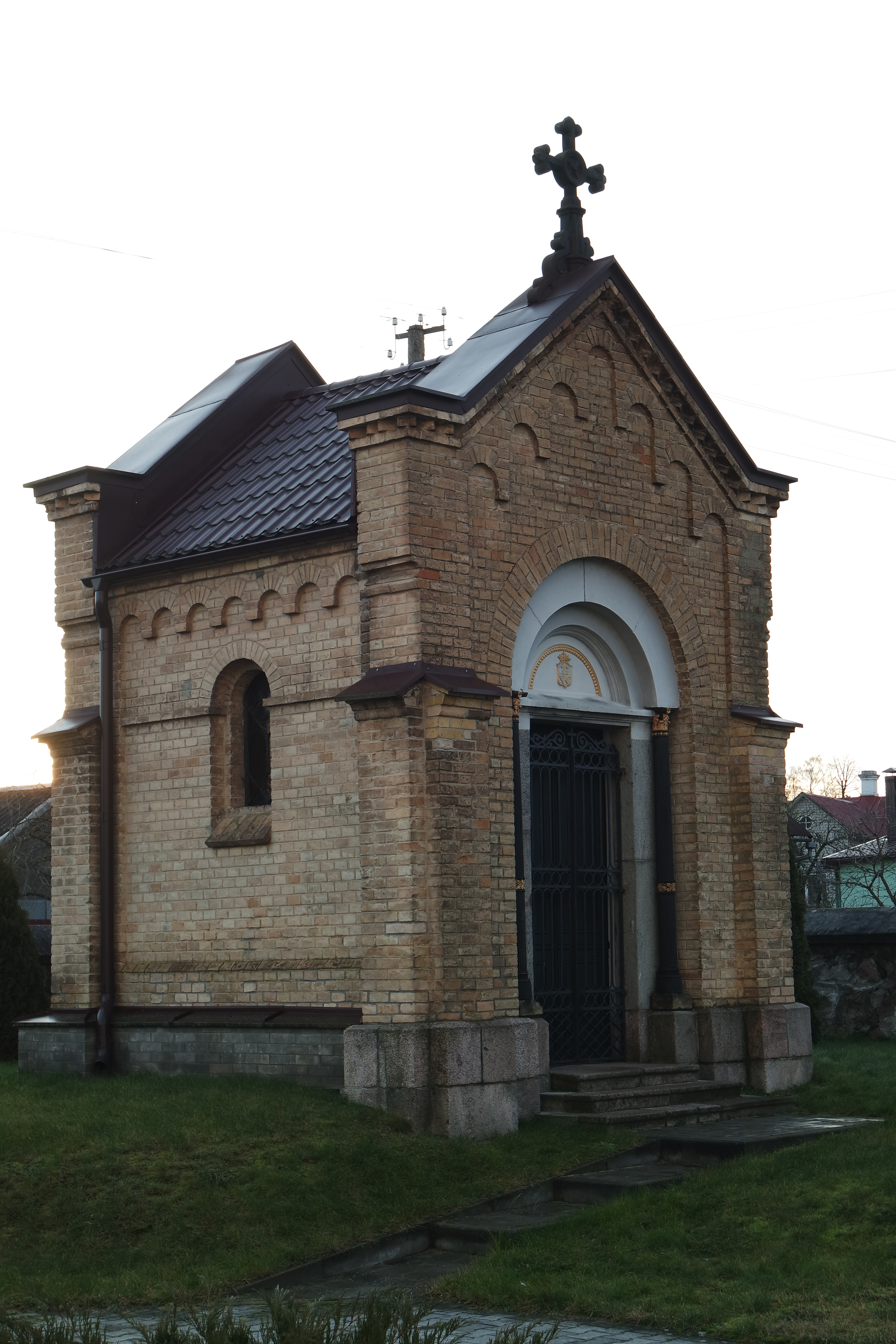 Chapel-burial-vault of Sieheń of Syrokomla coat of arms family. Vawkavysk, Belarus. Беларуская (тарашкевіца): Капліца-пахавальня Сехэняў гербу Сыракомля. Ваўкавыск, Беларусь.